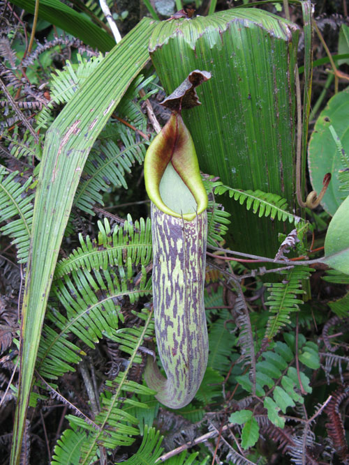 N.fusca (Crocker Range)